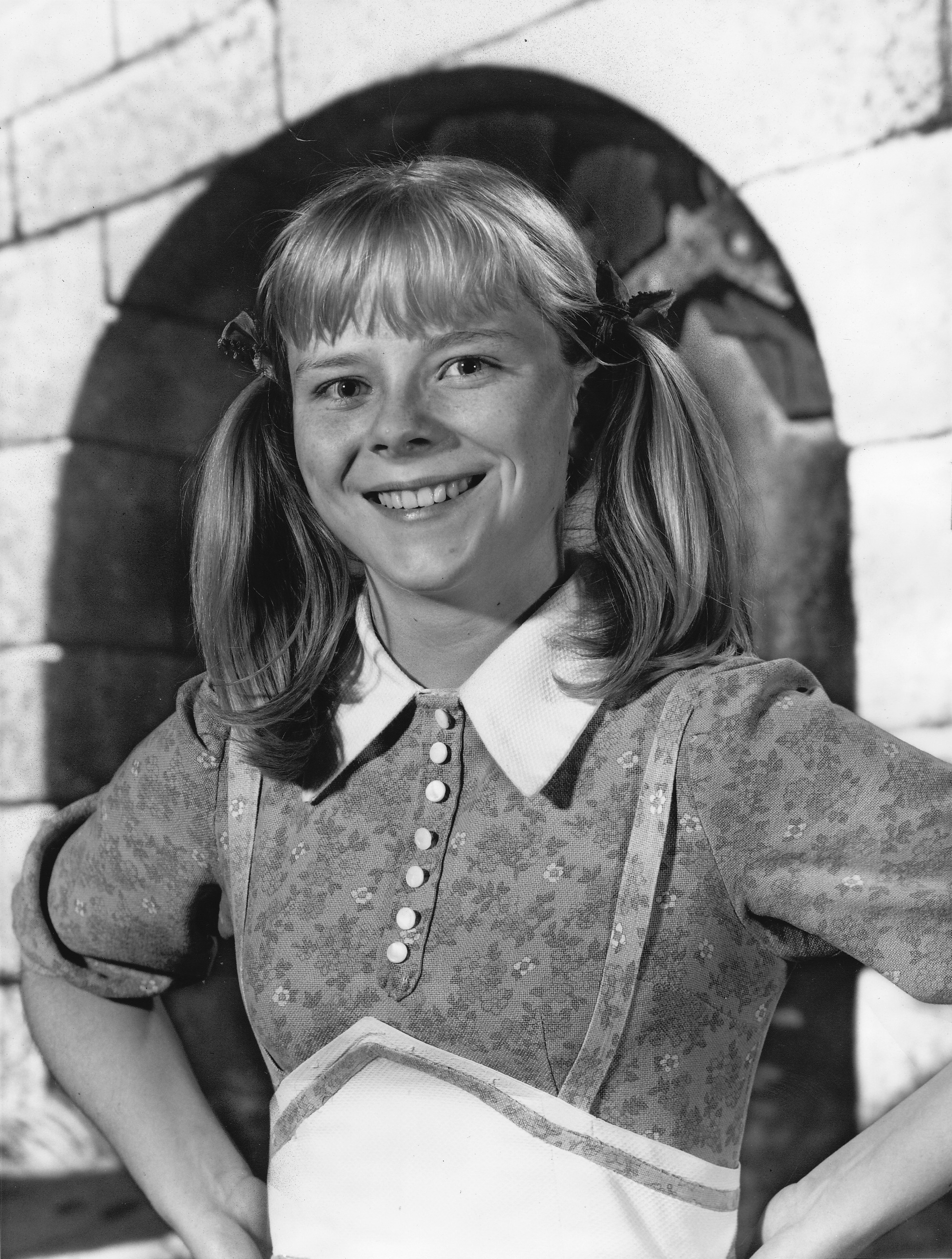 Publicity photo of teen actress LuAnn Haslam promoting her role on the television series The New Adventures of Huckleberry Finn.